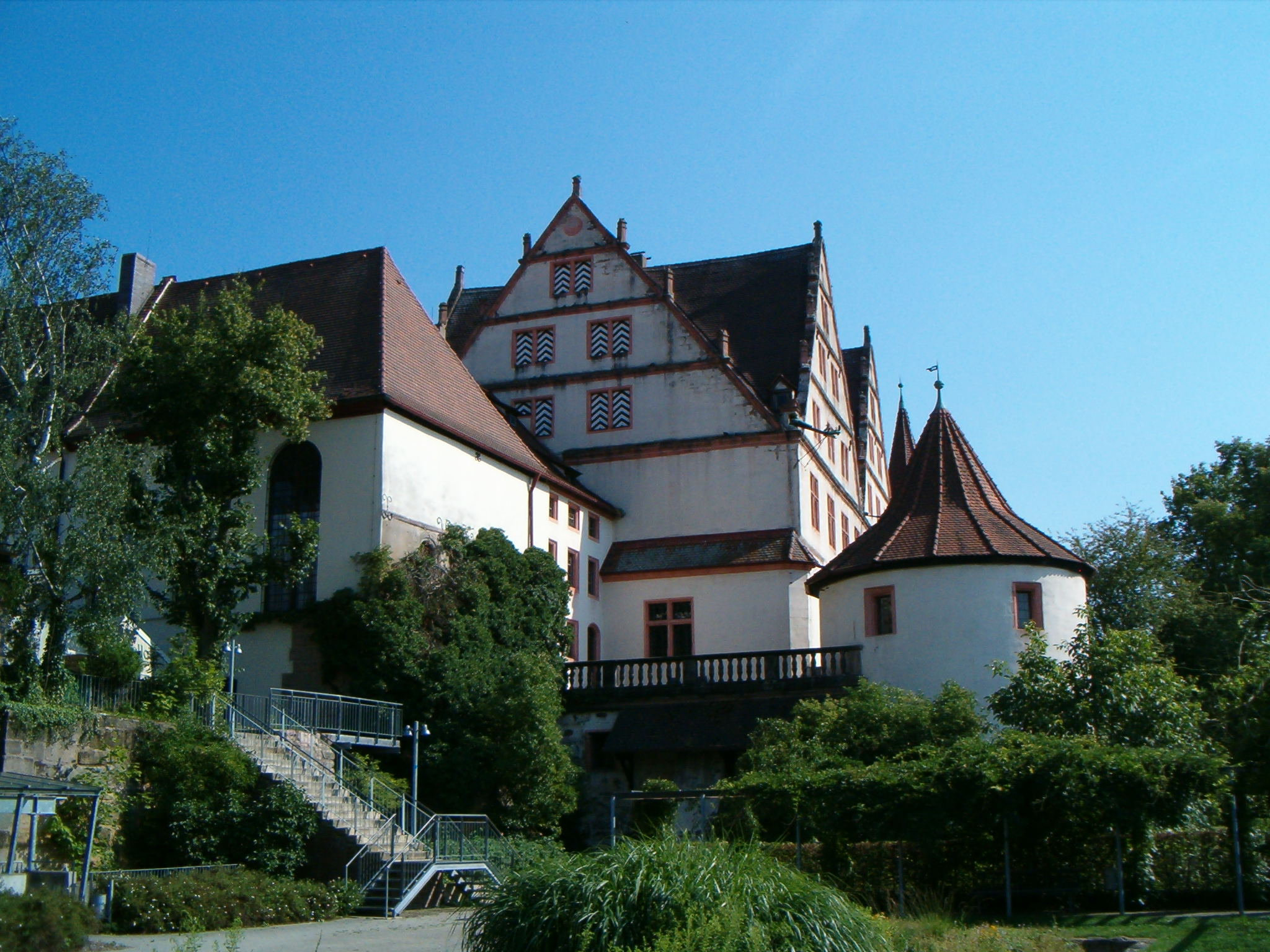 Schloss Ratibor, Roth, Bavaria, Germany